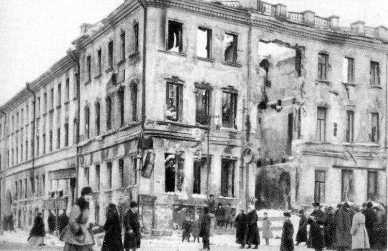 Moscow, Nikitsky Vorota Square, the House of Prince Gagarin, 1917